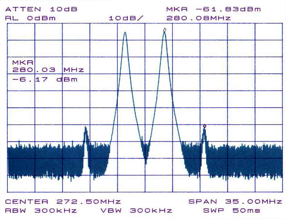 Frequency Spectrum of intermodulation distortion in a radio-frequency signal passed through the linear broad-band amplifier I built. The process of intermodulation is due to third-order harmonics of closely spaced signals. I tested this phenomenon with two signals: a Local Oscillator (LO) at 270 MHz, +0dBm, and an RF signal at 275 MHz. (Closer spacing would push the limitations of the RF spectrum analyzer resolution). Clear intermodulation products were seen at 265 and 280 MHz. As seen on the attached graph, the intermodulation power is 55.66 dB lower than the signal power. This graph nicely shows our desired signal peaks, as well as the side-band intermodulation. These closely spaced distortions would likely interfere with our signal, since it would be difficult to build a high-quality filter to cancel them out in our application. However, their overall power is more than 50 dB below the desired signal, which was sufficiently low for our purposes. We used this measurement to estimate the IP3 (third order intercept point) parameter.